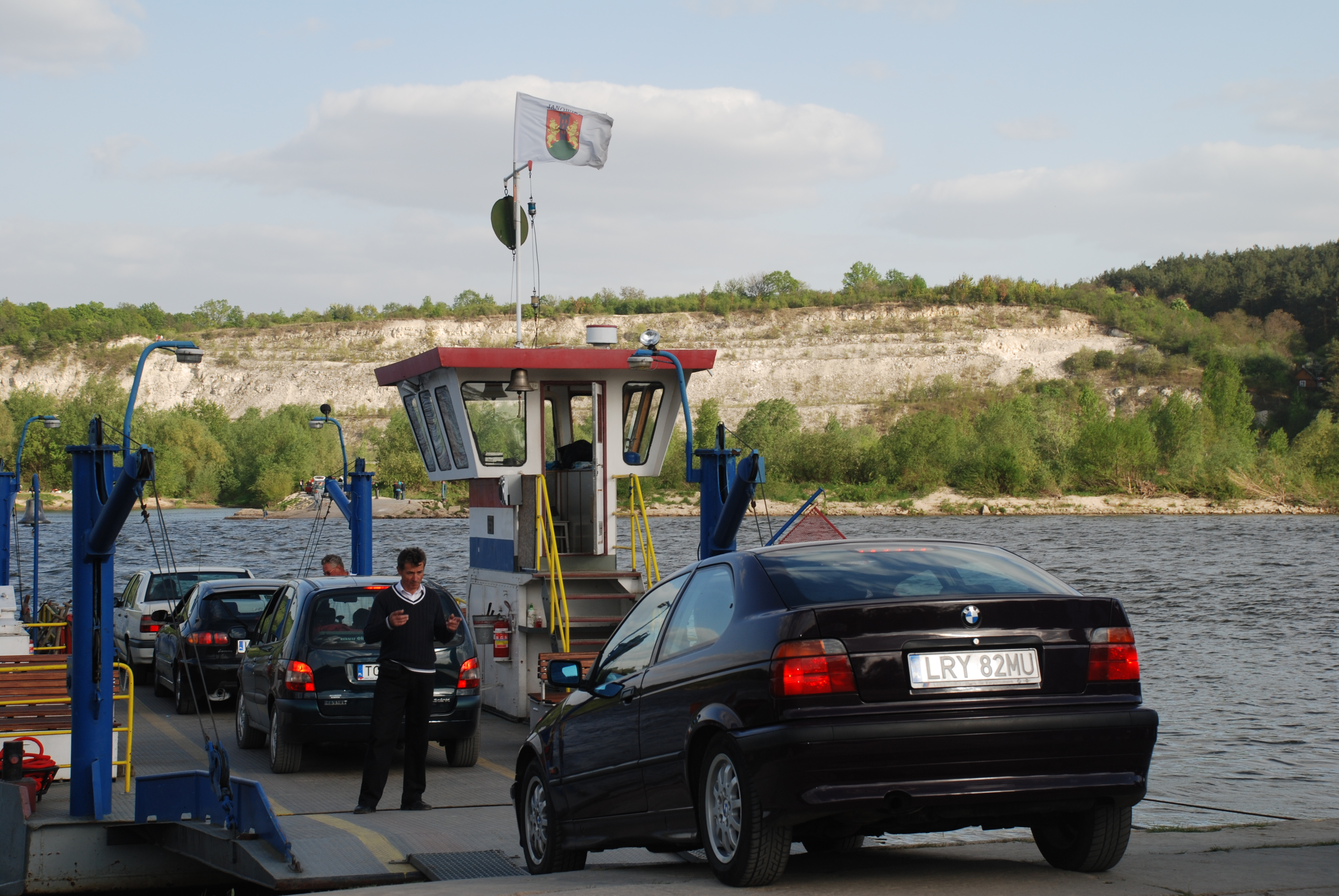 Open may - october. Info